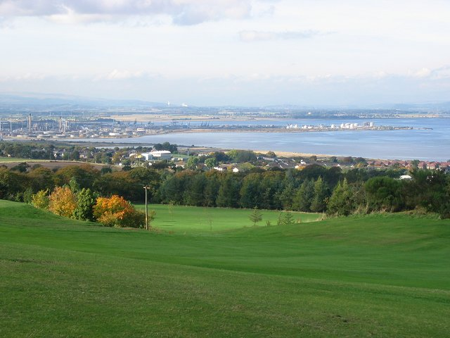 Grangemouth from Airngath Hill. Airngath Hill is the home of the West Lothian Golf Club. They have some fine views of the Forth. Looking west to Grangemouth.